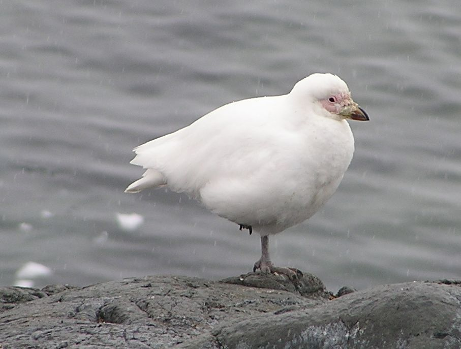 Snowy Sheathbill (Chionis alba) near Almirante Brown Antarctic Base, Paradise Bay, Antarctica. Taken by Storkk.